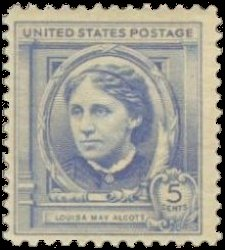 US stamp honoring Louisa May Alcott